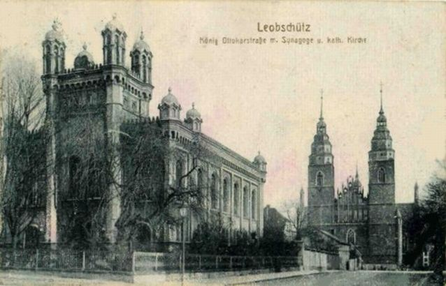 Synagogue in Głubczyce